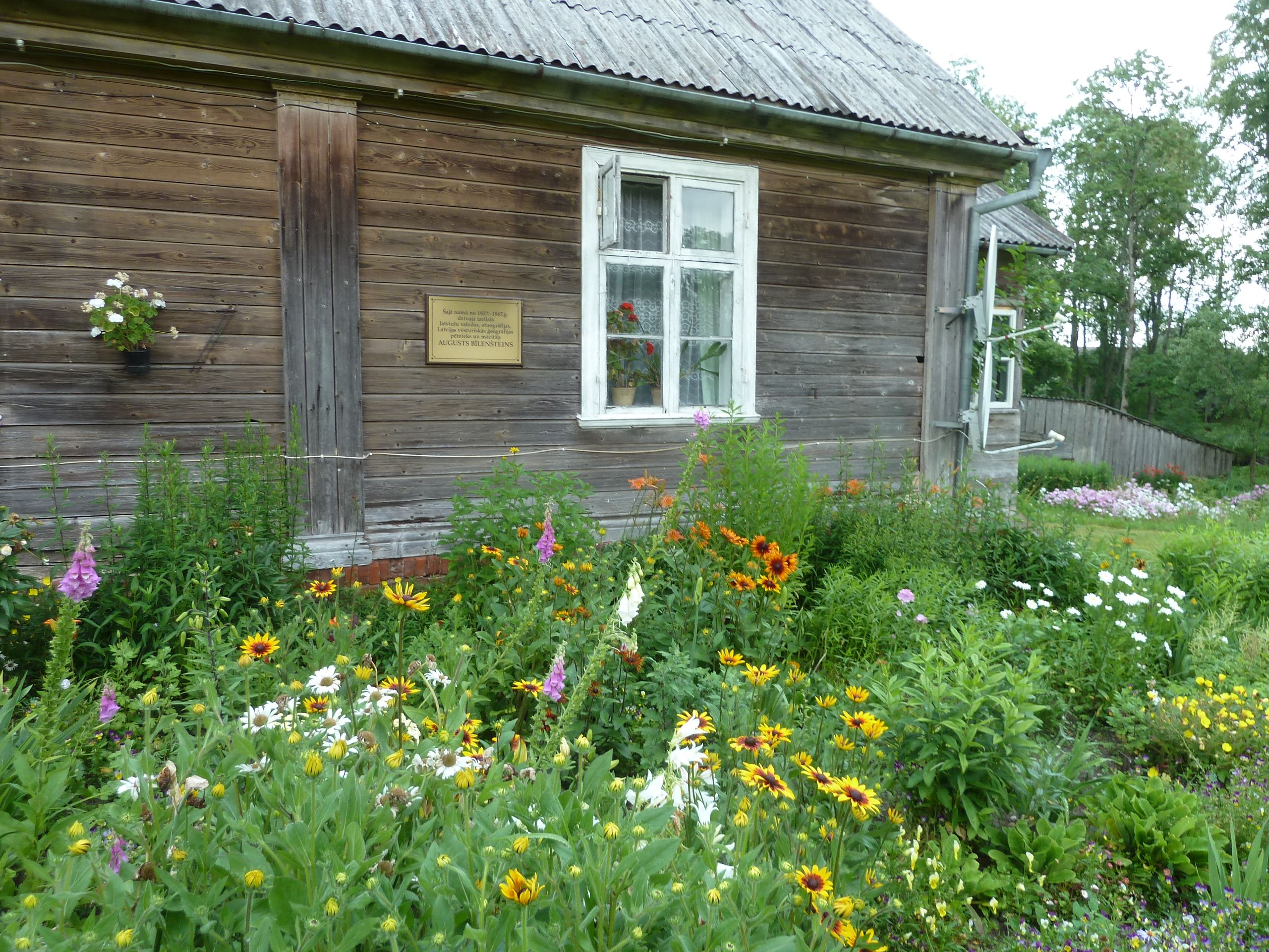 Parsonage Oši (Ash-trees) near Jaunauce, Latvia, where August Bielenstein spent his childhood and first years of work (see plate!)